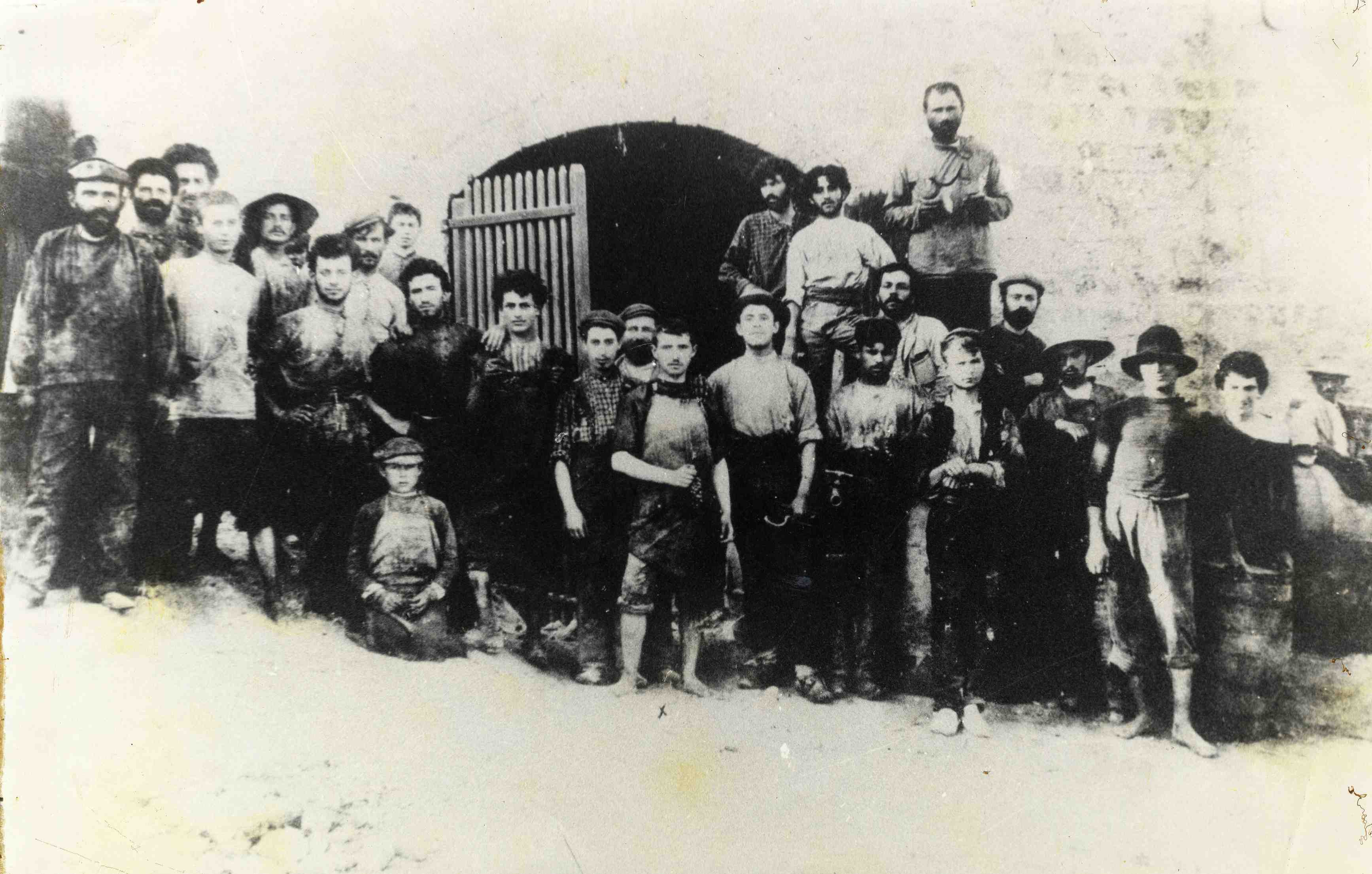 People of Israel